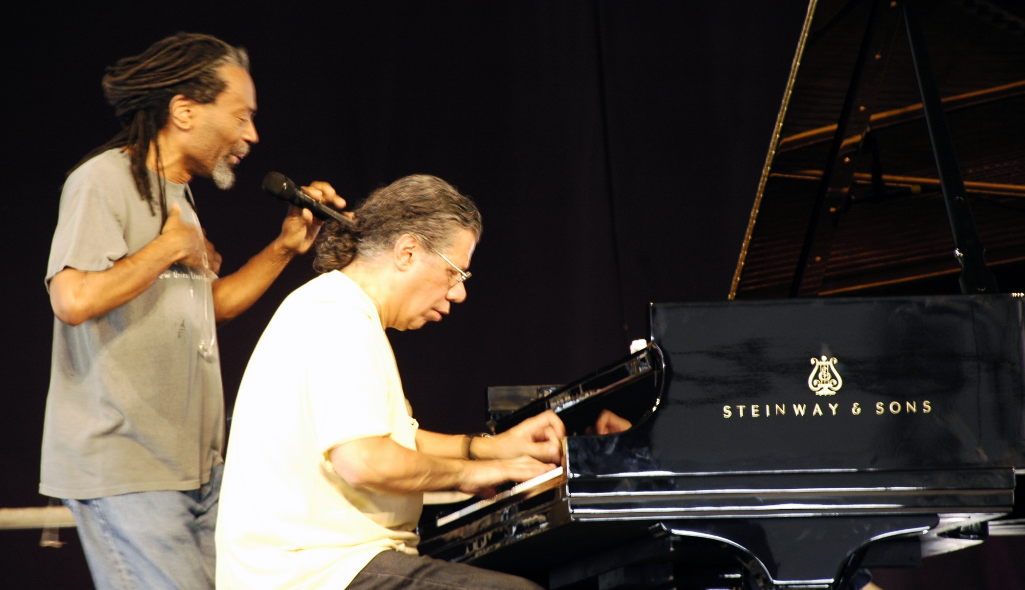 Bobby Mc Ferrin and Chick Corea. New Orleans Jazz Fest 2008